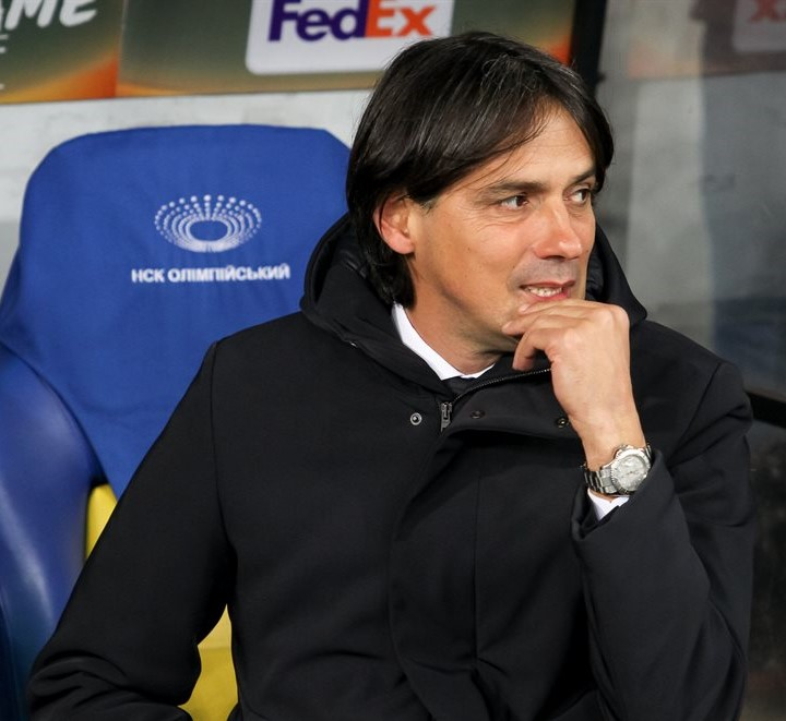 Simone Inzaghi